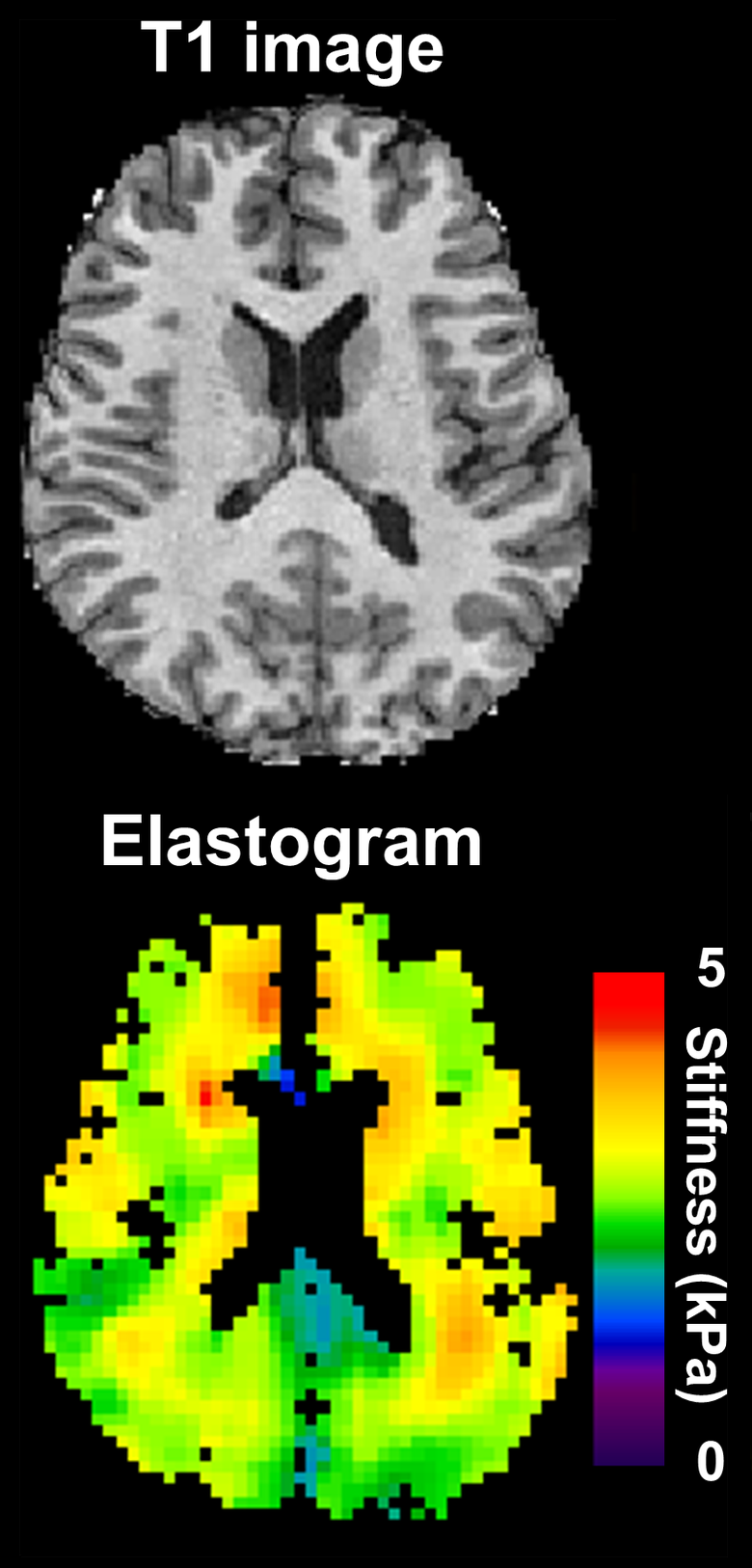 A T1 weighted image is shown in the top, and the elastogram is in the bottom.